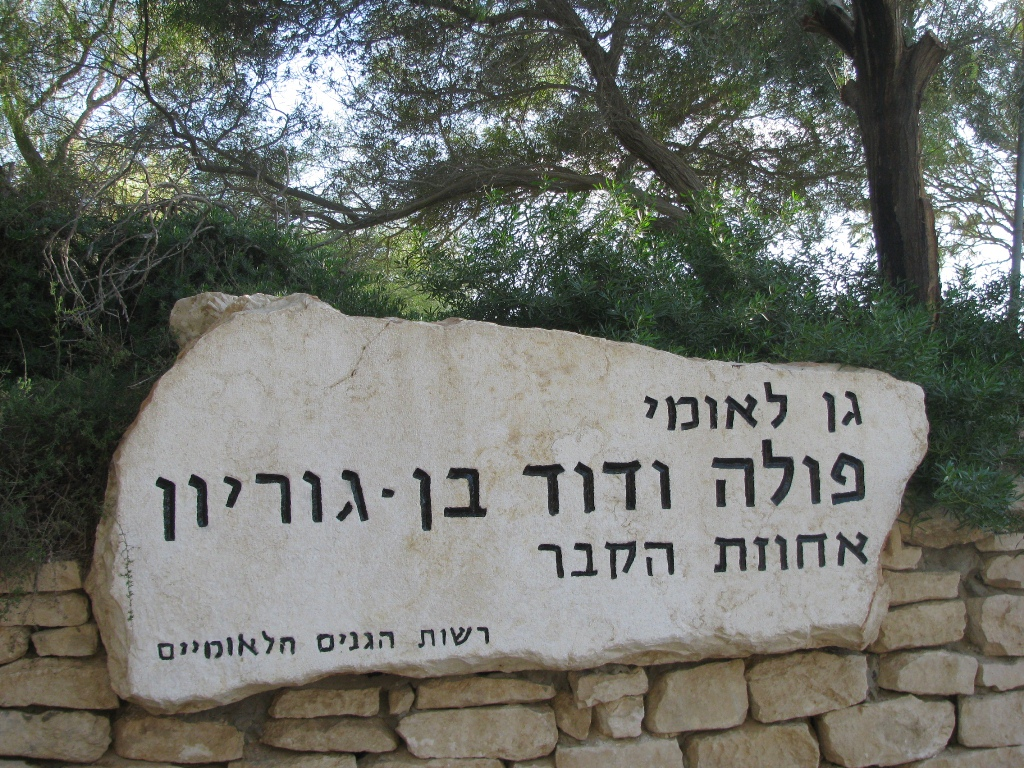 Entrance to tomb of David Ben - Gurion